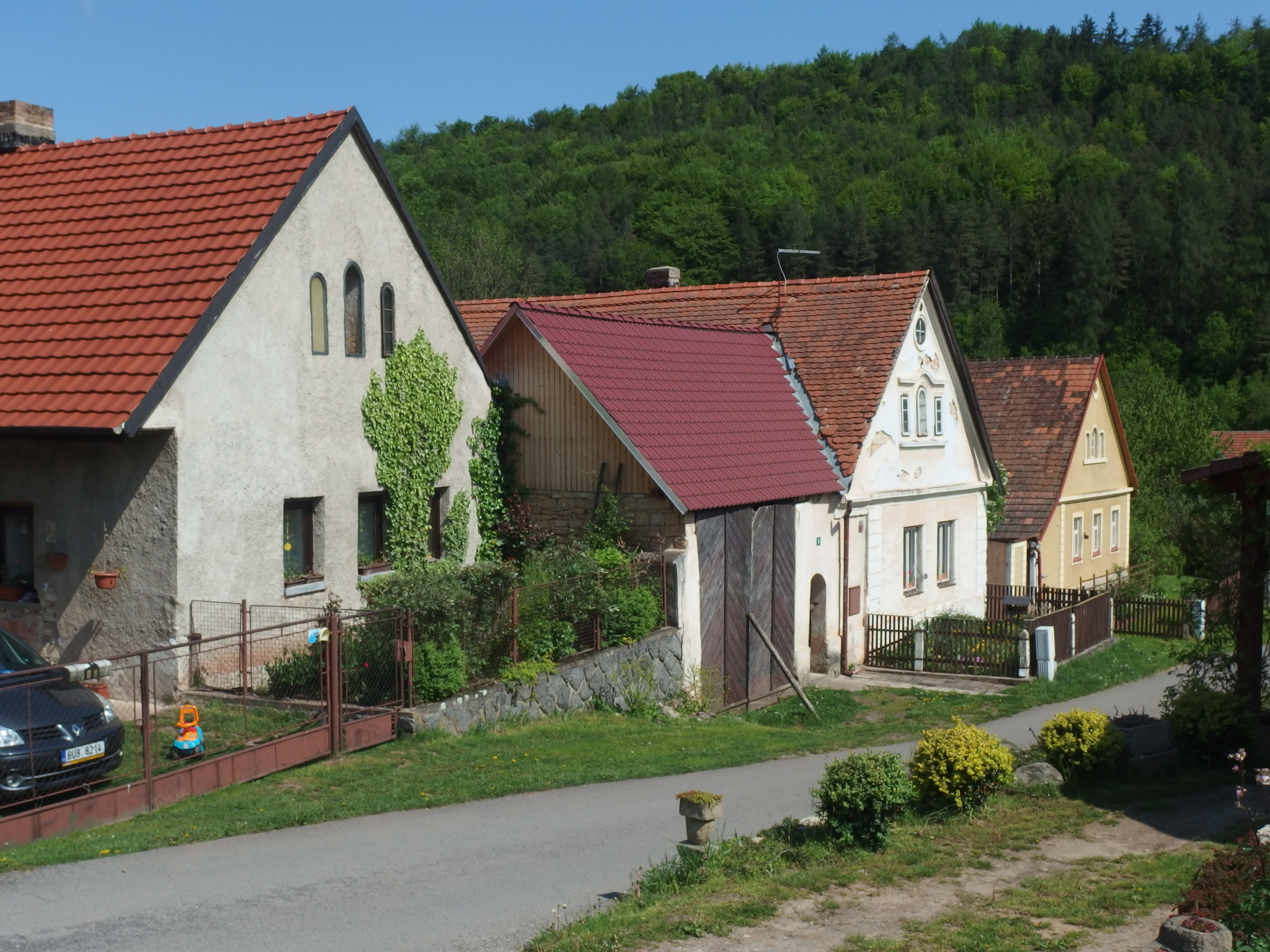 Luže, Chrudim District, Czech Republic, part Brdo.